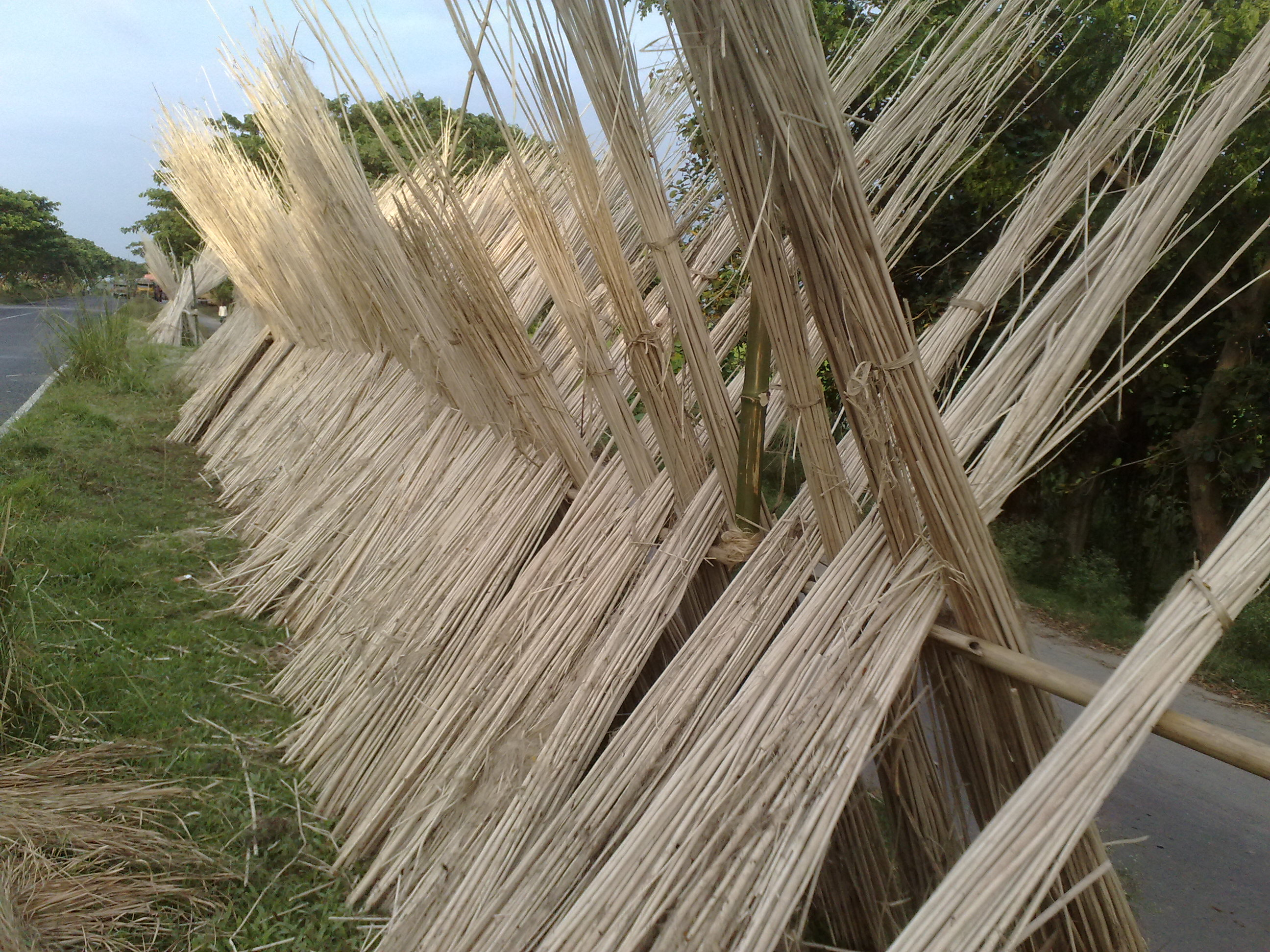 As like Jute, Jute cane is also being dried under the sun, besides a road